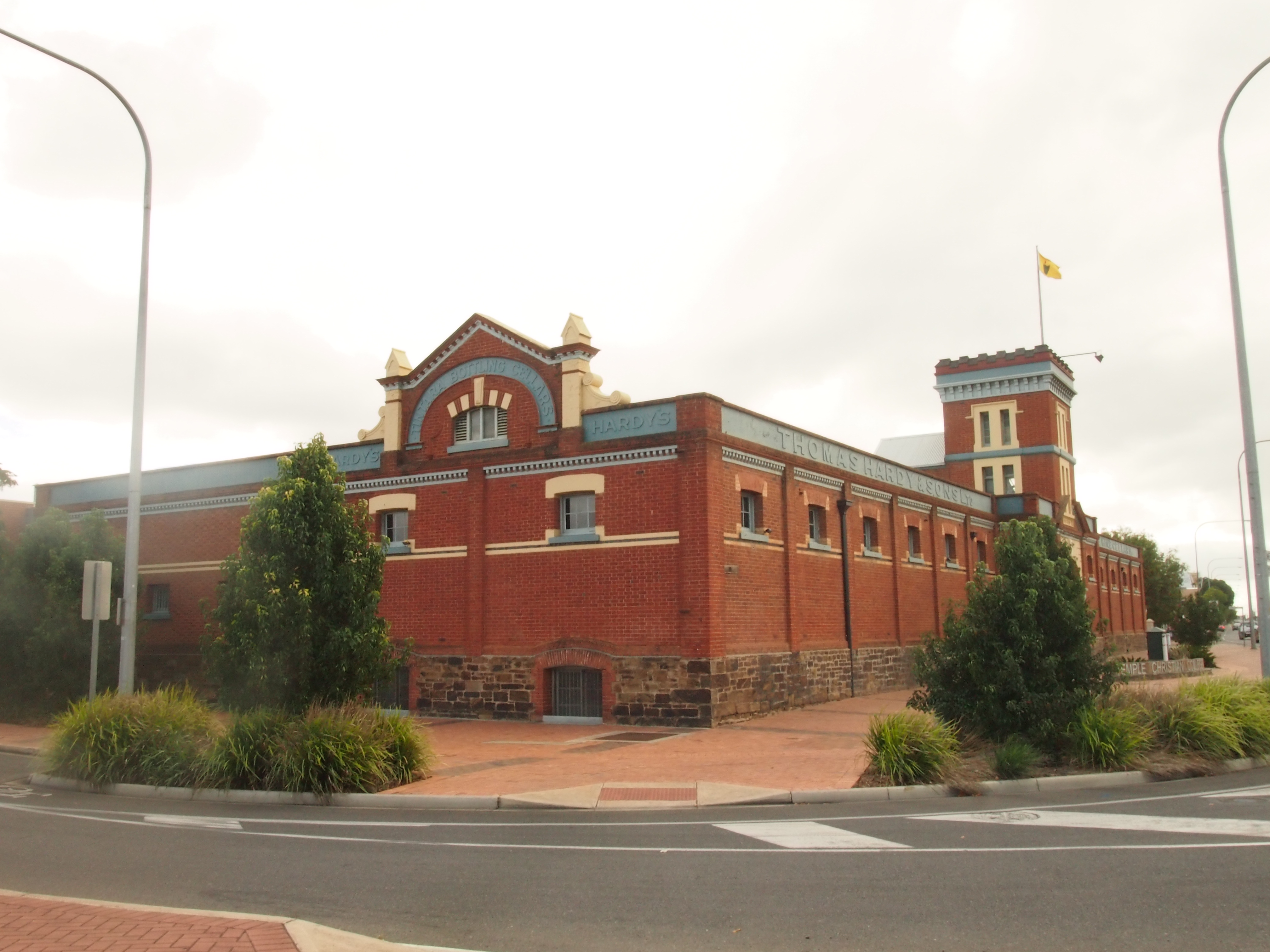 Former Thomas Hardy & Sons Wine Cellars, on the corner of Henley Beach Road and James Congdon Drive, Mile End, South Australia, built in 1893 and since 1984 part of the Mile End campus of Temple Christian College. Original filename = P4261731.JPG